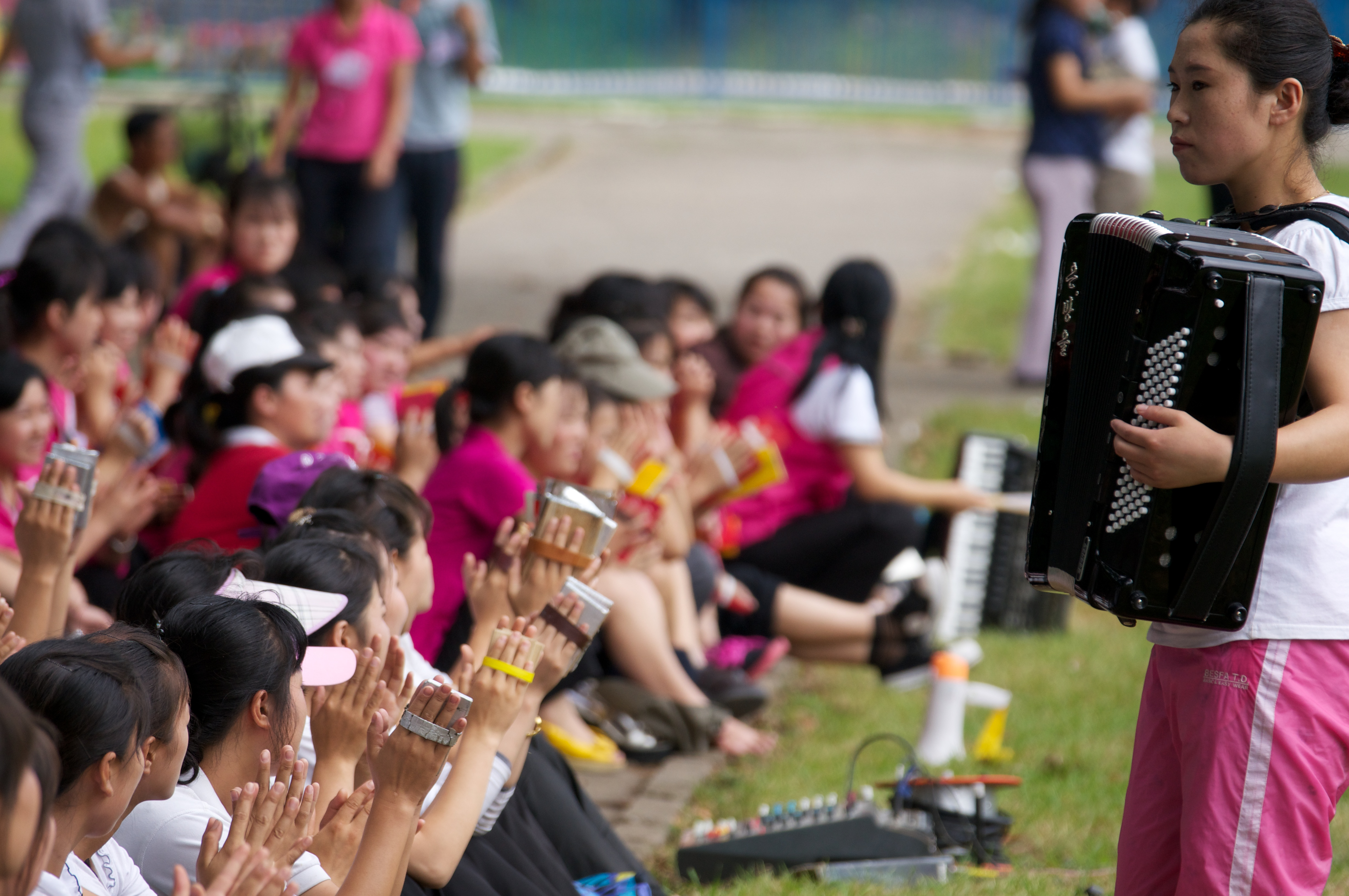 North Korean relax, play games, and ride fun fair amusements at a Pyongyang park on International Youth Day. Please check out my new North Korea blog